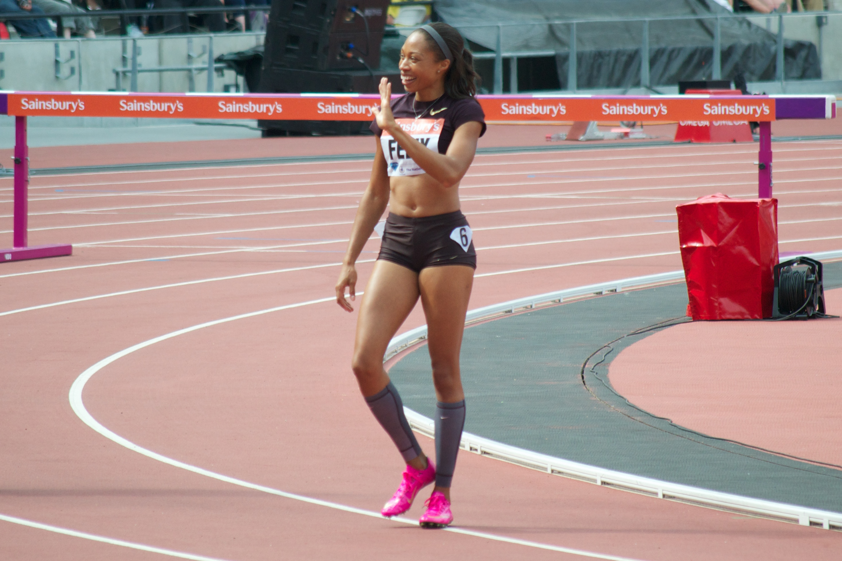 During the Diamond League meeting in London.